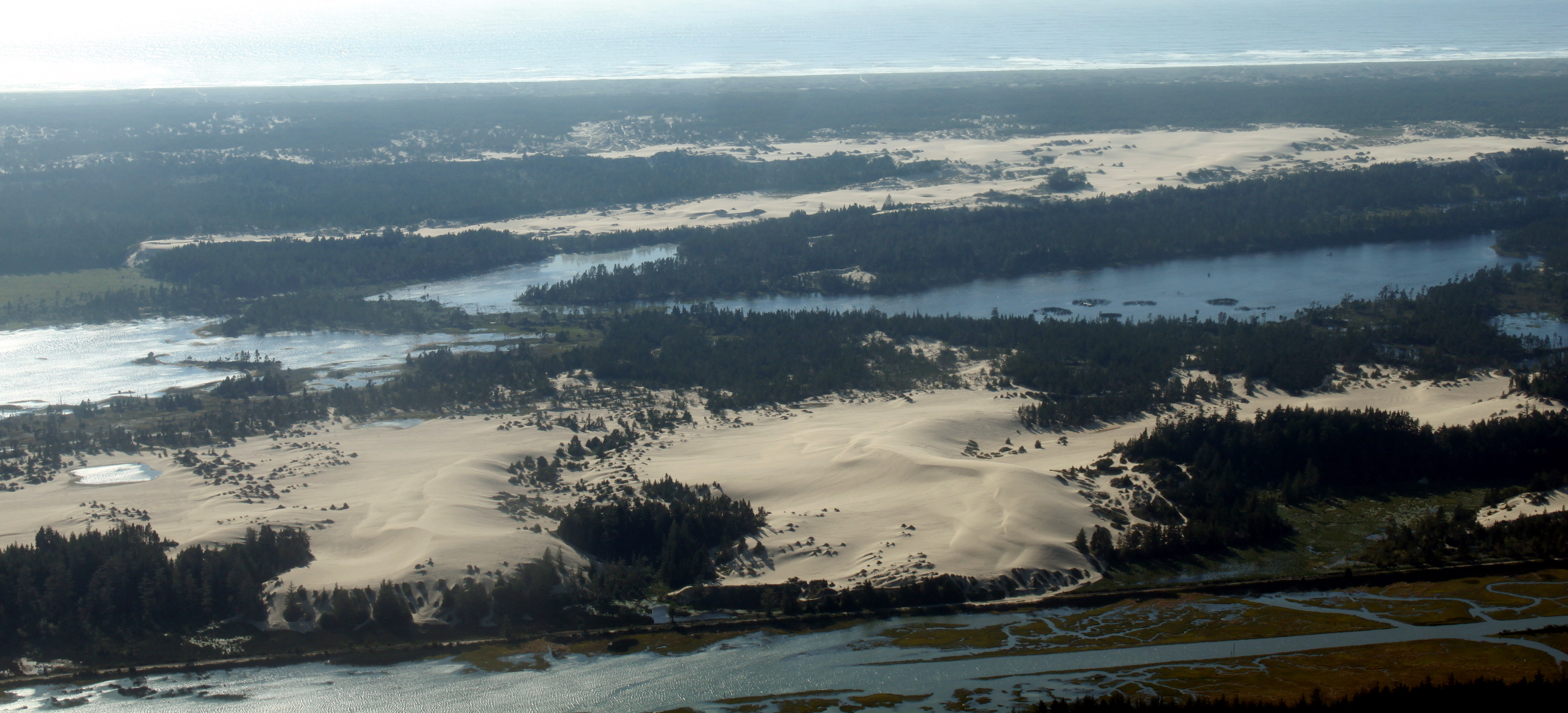 Aerial view of the Oregon Dunes near Coos Bay, Oregon.